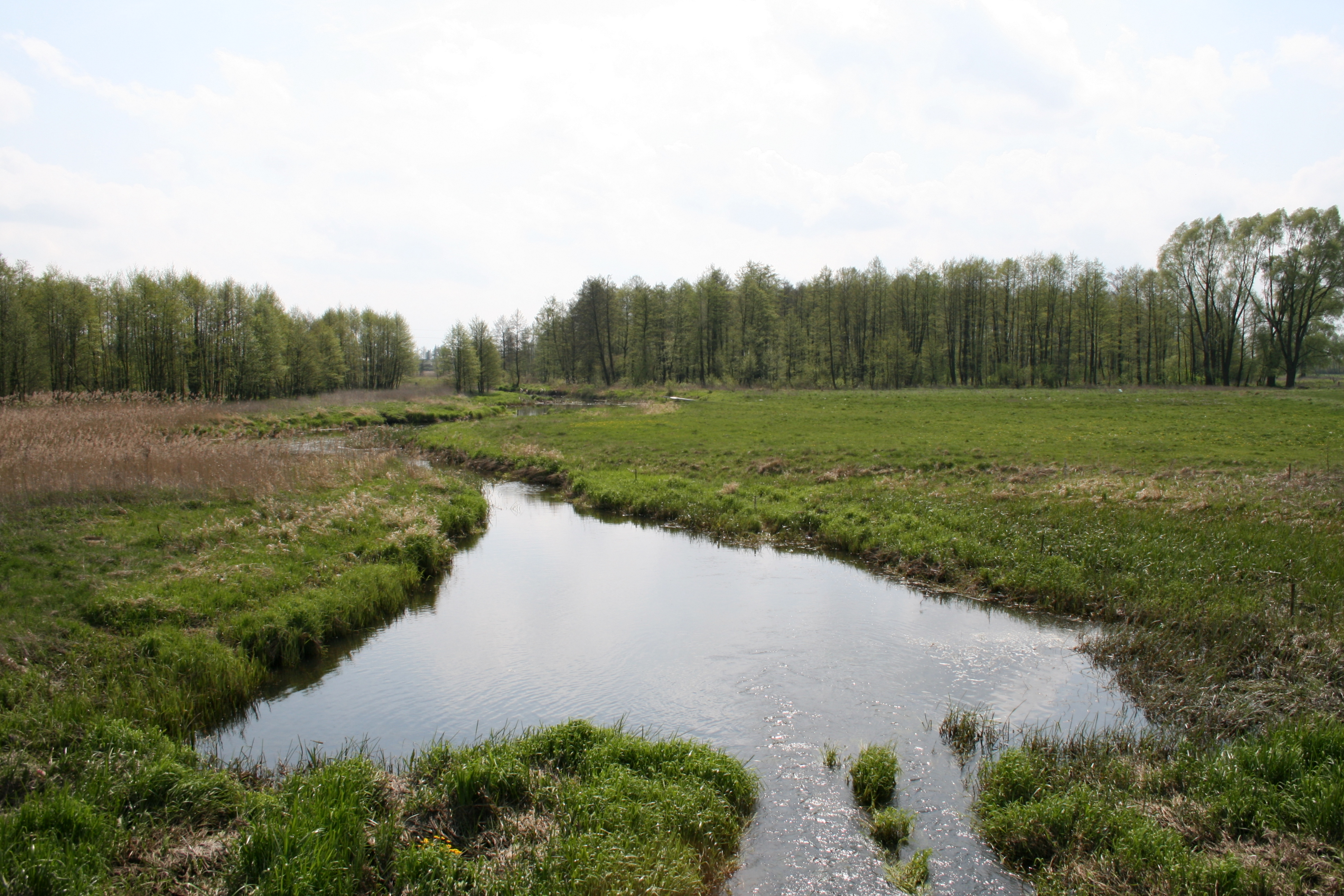 River Stara Rzeka in Krześlin